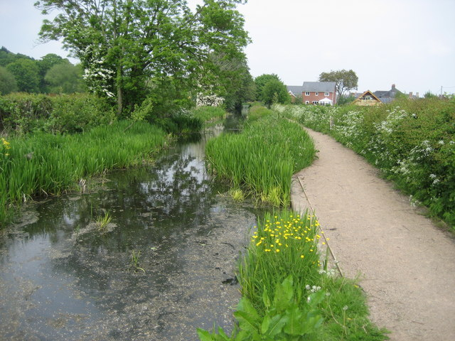 Montgomery Canal approaching Llanymynech. Approaching Llanymynech along the canal towpath from the west, which at this point has been adopted by the Offa's Dyke Path.